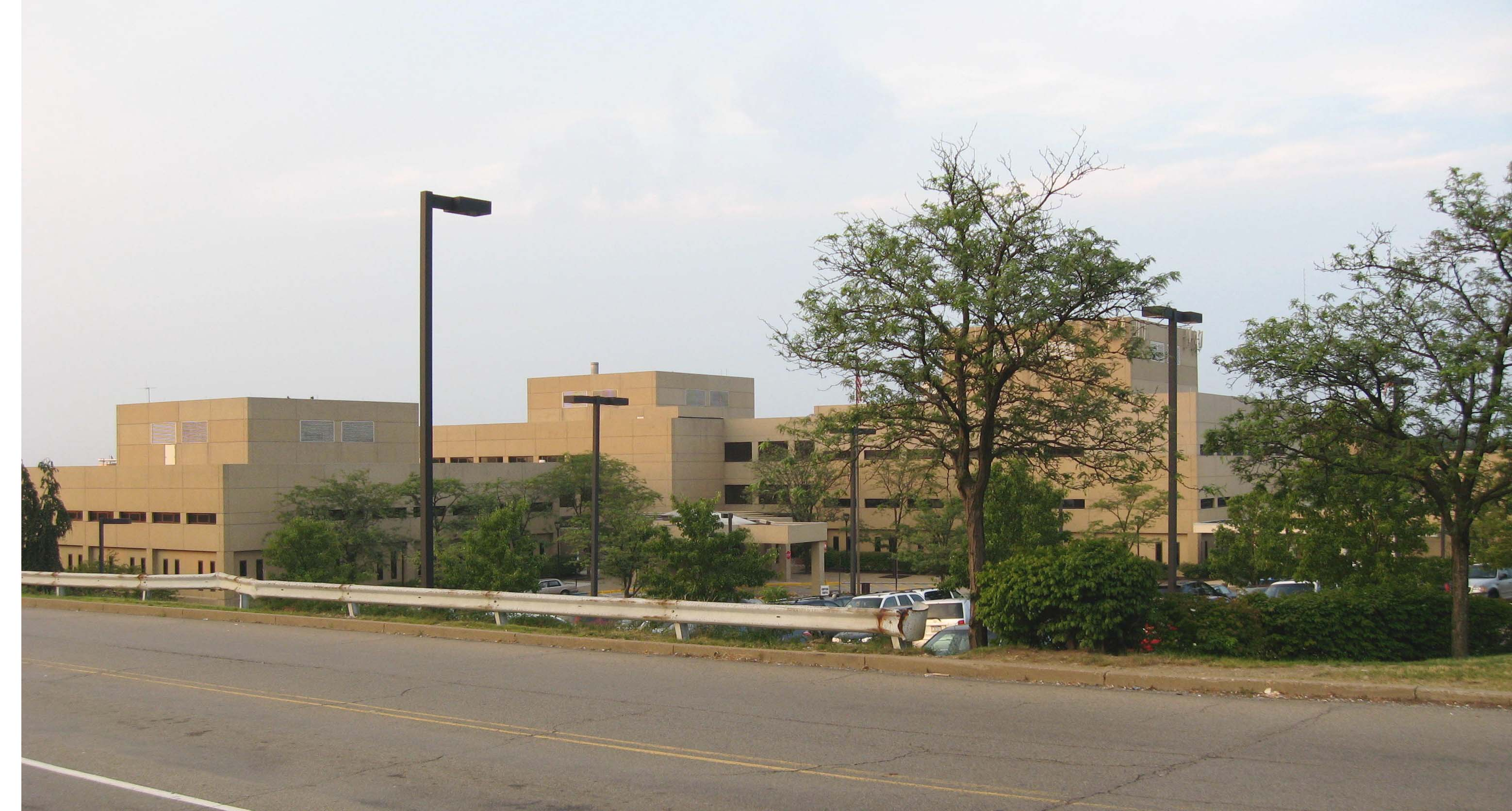 Looking north from N Wren Drive at sunset, at Saint Claire Memorial in Mt. Lebanon, Pennsylvania. Designed by IKM.